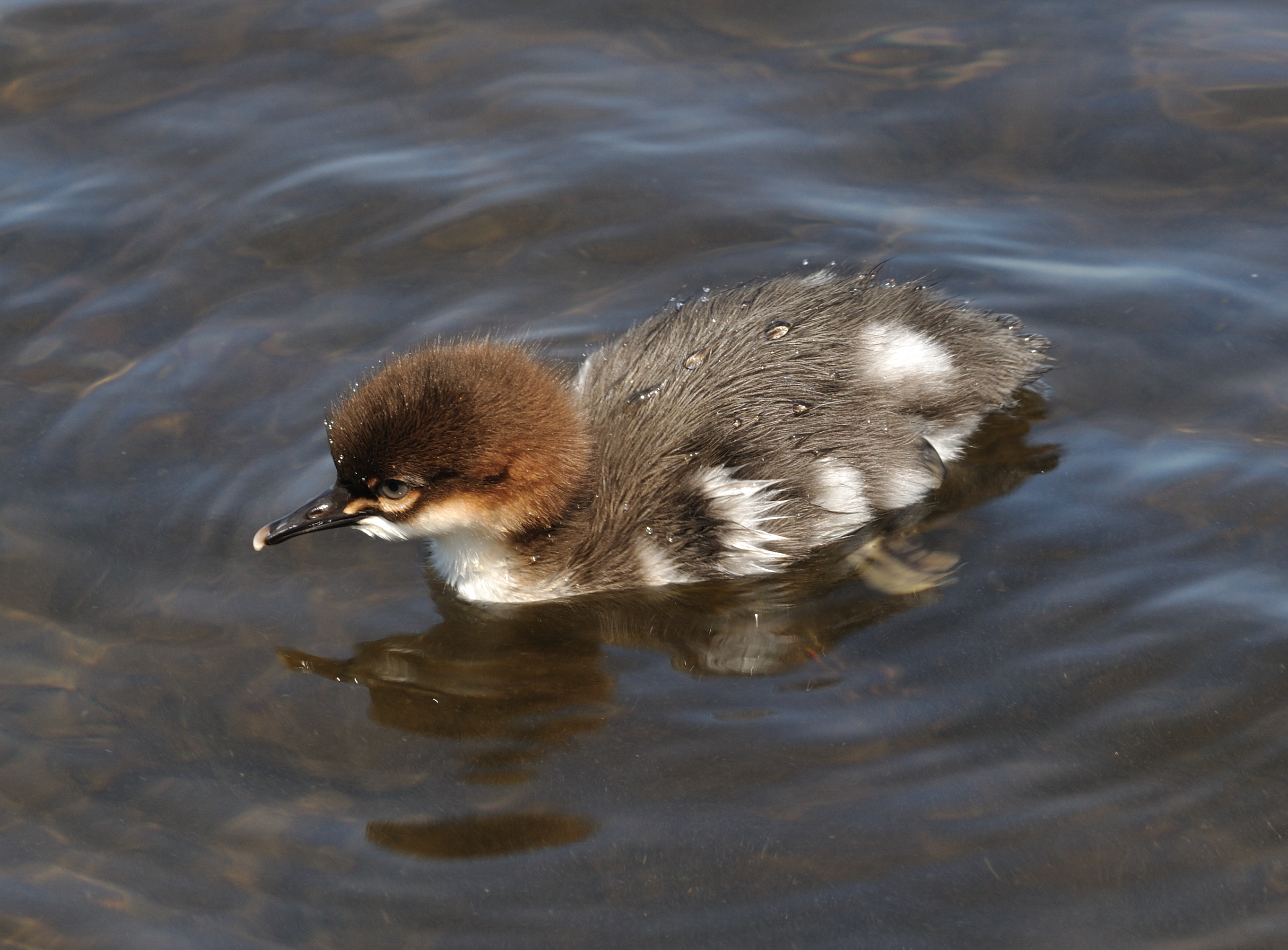 Goosander (Mergus merganser) duckling in Munich, Germany.